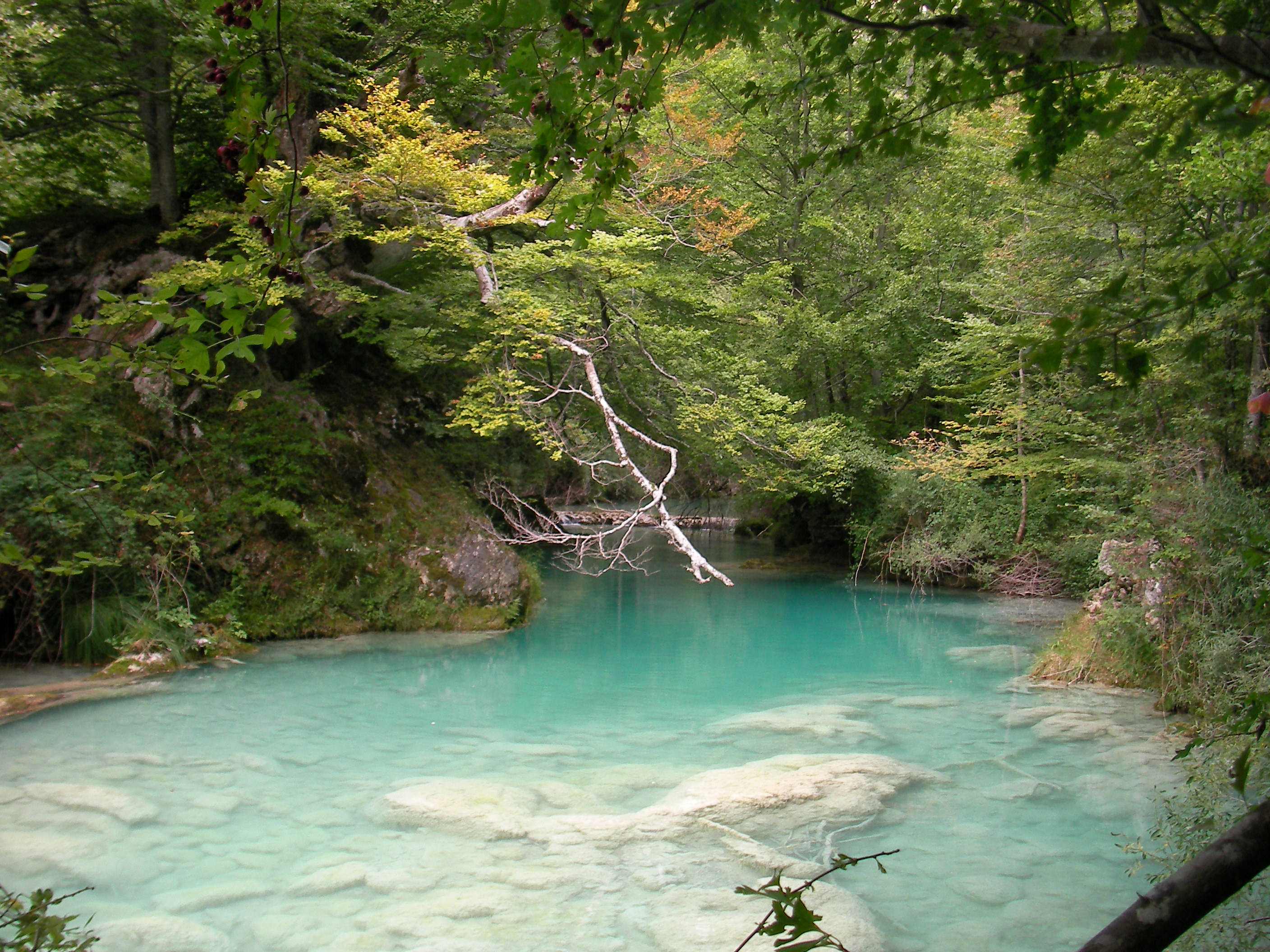 Close to Urederra river springs in Navarre.